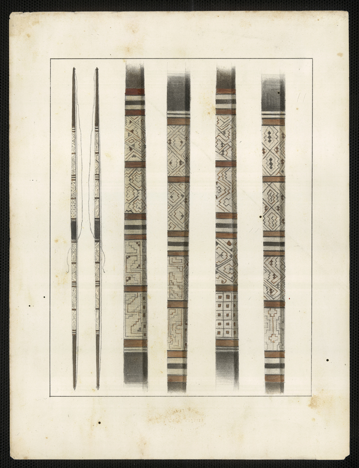 Indigenous artifacts-weapons 10